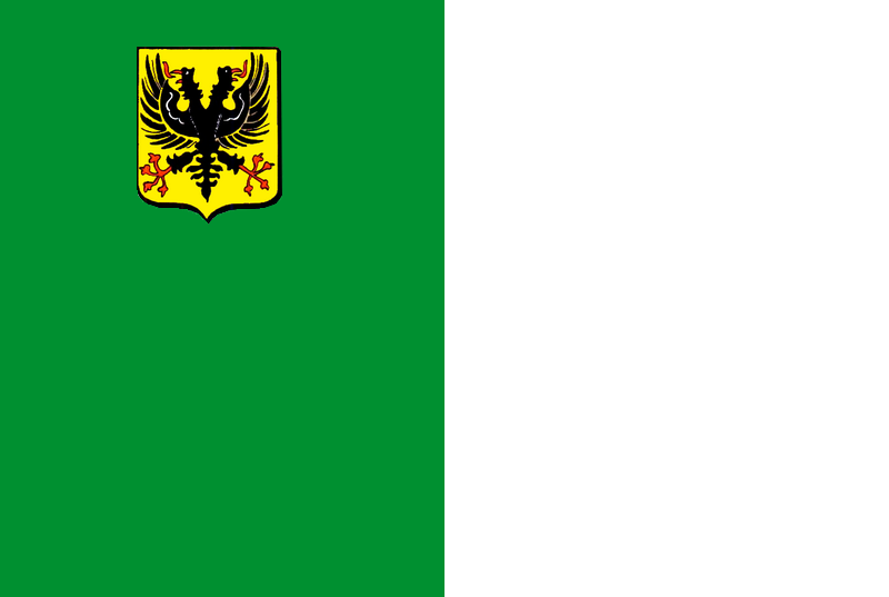 Flag of the Belgian commune of